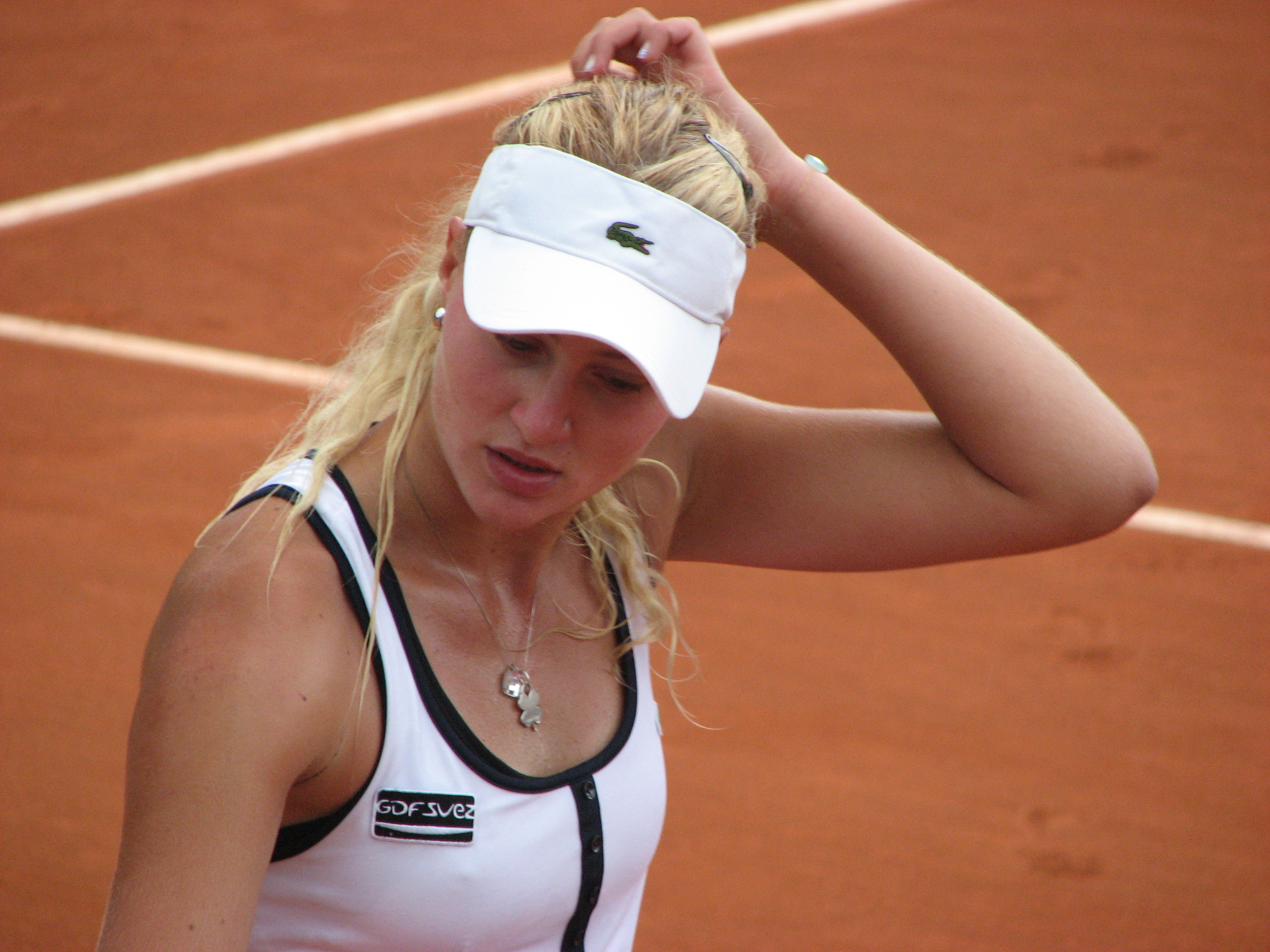 Kristina Mladenovic at the French Open (2009)